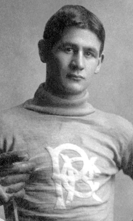 Canadian hockey player Billy Baird with the Pittsburgh Professionals in the 1905–06 season